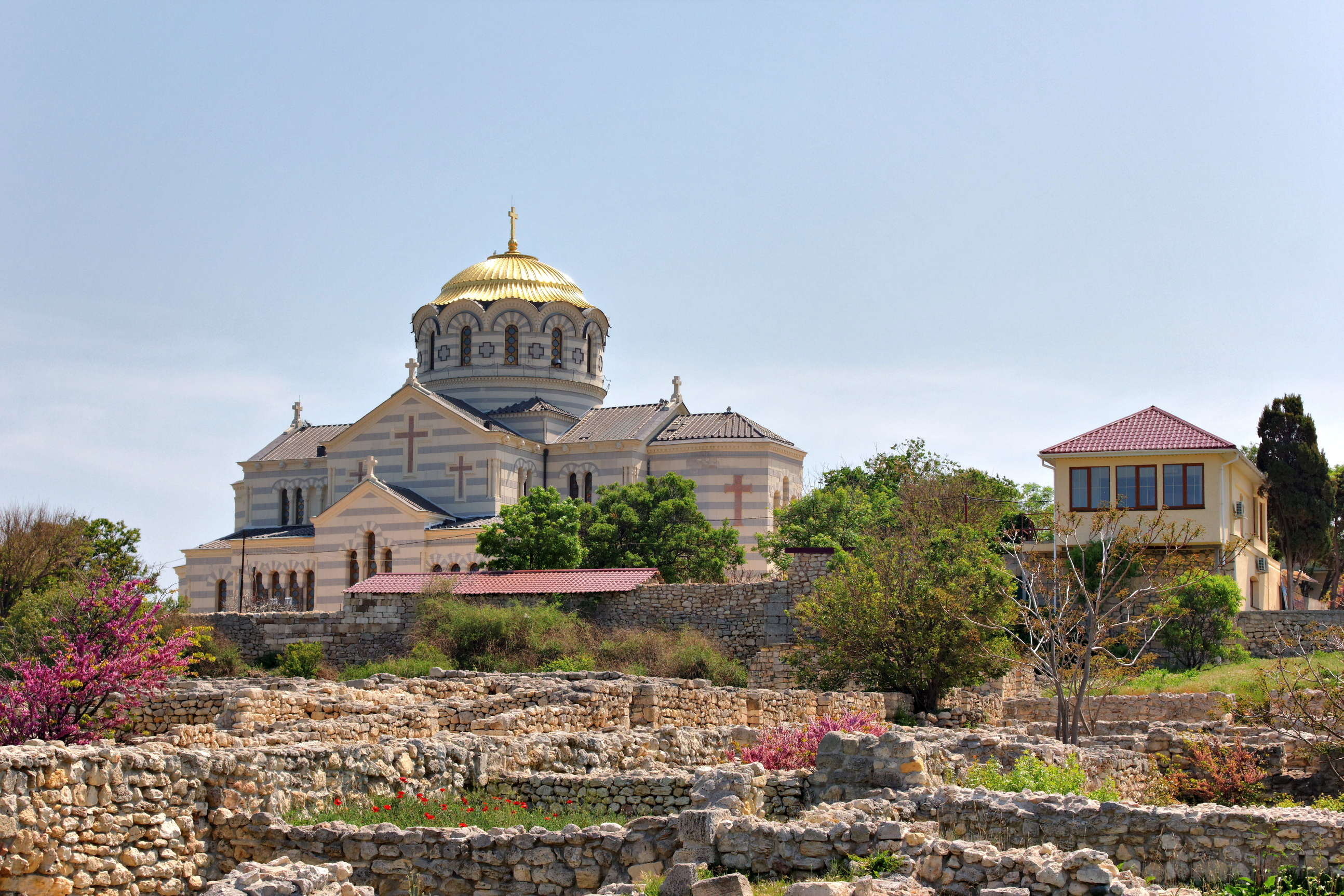 Sevastopol. Chersonesus. Saint Vladimir Cathedral